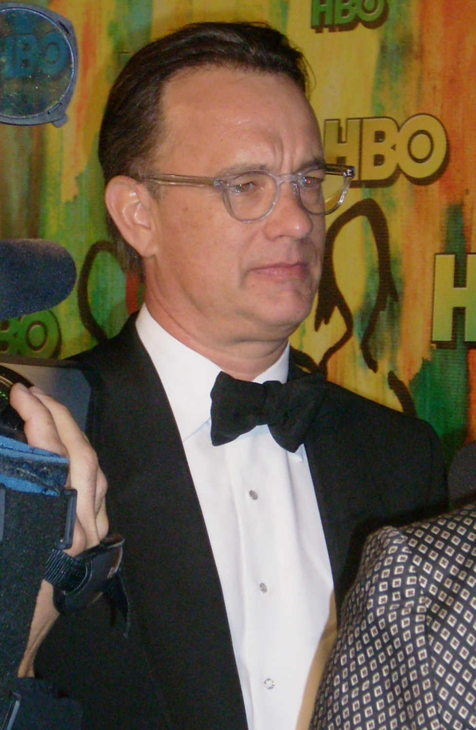 HBO Post-Emmys Party, Pacific Design Center, Sept. 21, 2008